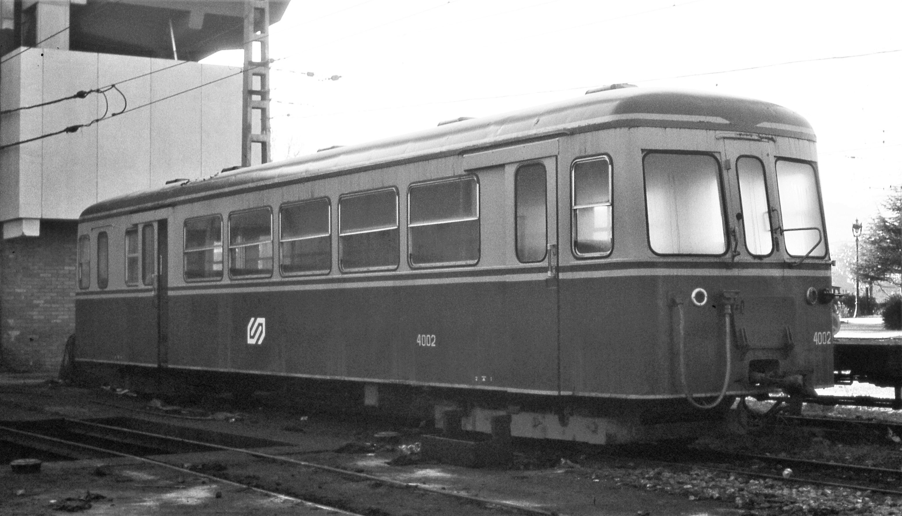 Trailer 4002 of Ferrocarrils de la Generalitat de Catalunya (FGC), of the Ferrostaal type, modified to be coupled to the MAN diesel railcars of the 3000 series, in the workshop of Martorell Enllaç.